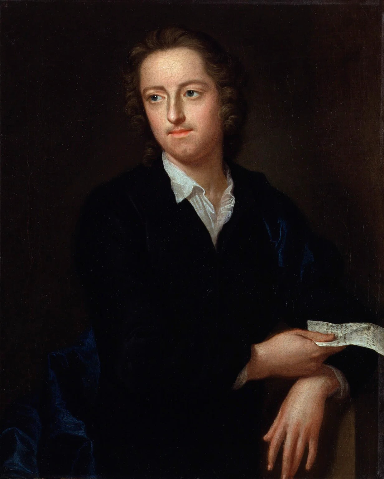 Portrait of the poet Thomas Gray by painter John Giles Eccardt; oil on canvas, painted 1747-1748 Size of original: 15 7/8 inches x 12 7/8 inches (403 mm x 327 mm); NPG 989